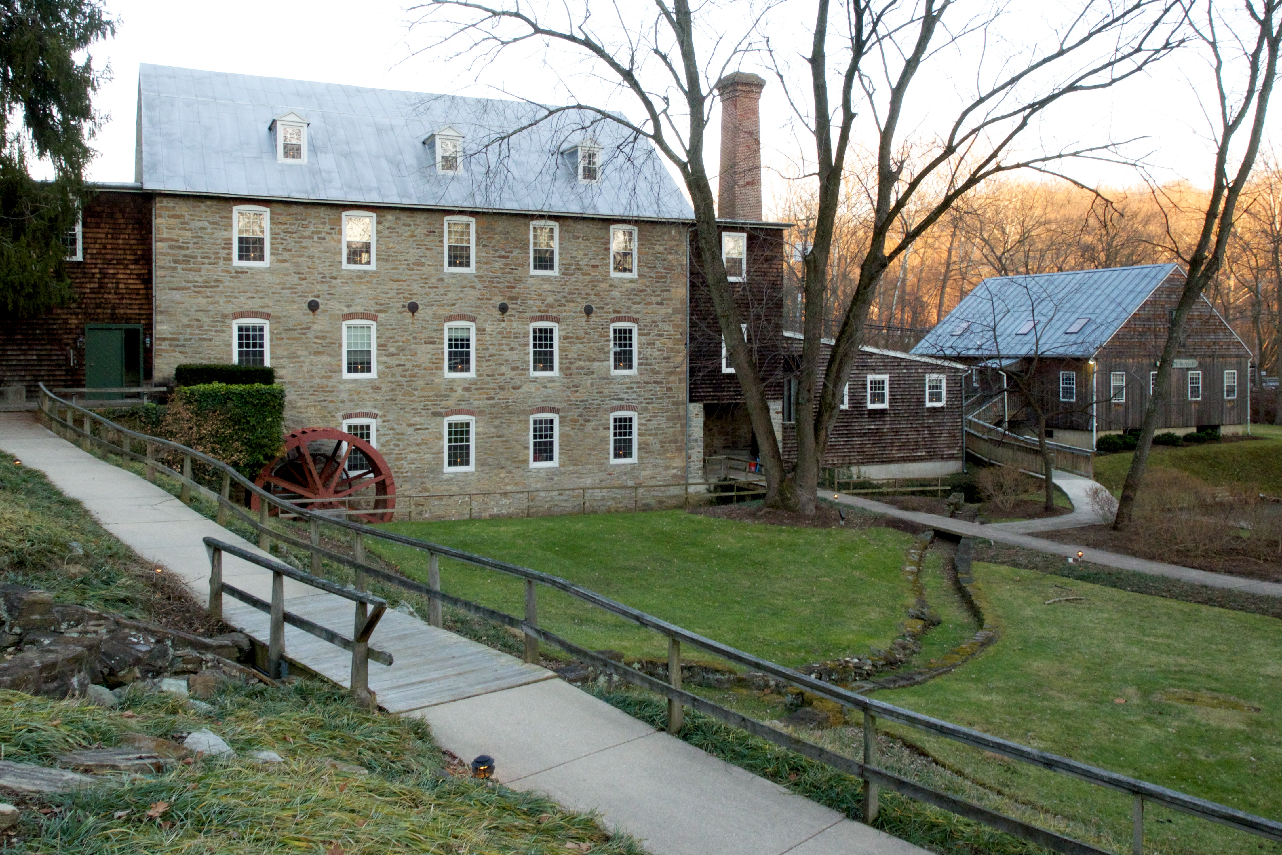 Rockland Grist Mill, taken from the rear side on Old Court Road, facing toward Falls Road. Part of the Rockland Historic District, Baltimore County, Maryland